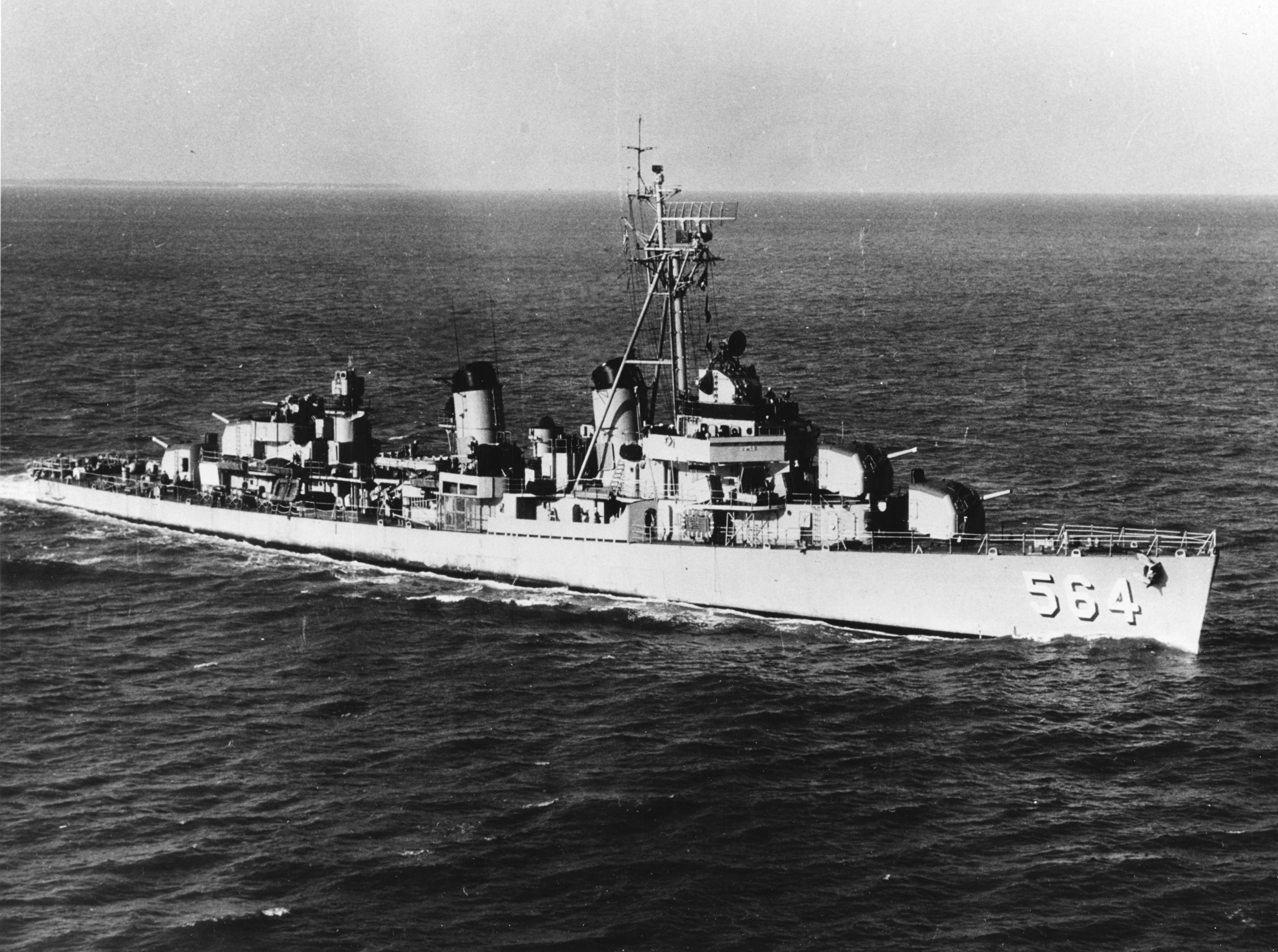 The U.S. Navy destroyer USS Rowe (DD-564) underway at sea, circa the middle or later 1950s, after being fitted with 76 mm/50 guns.